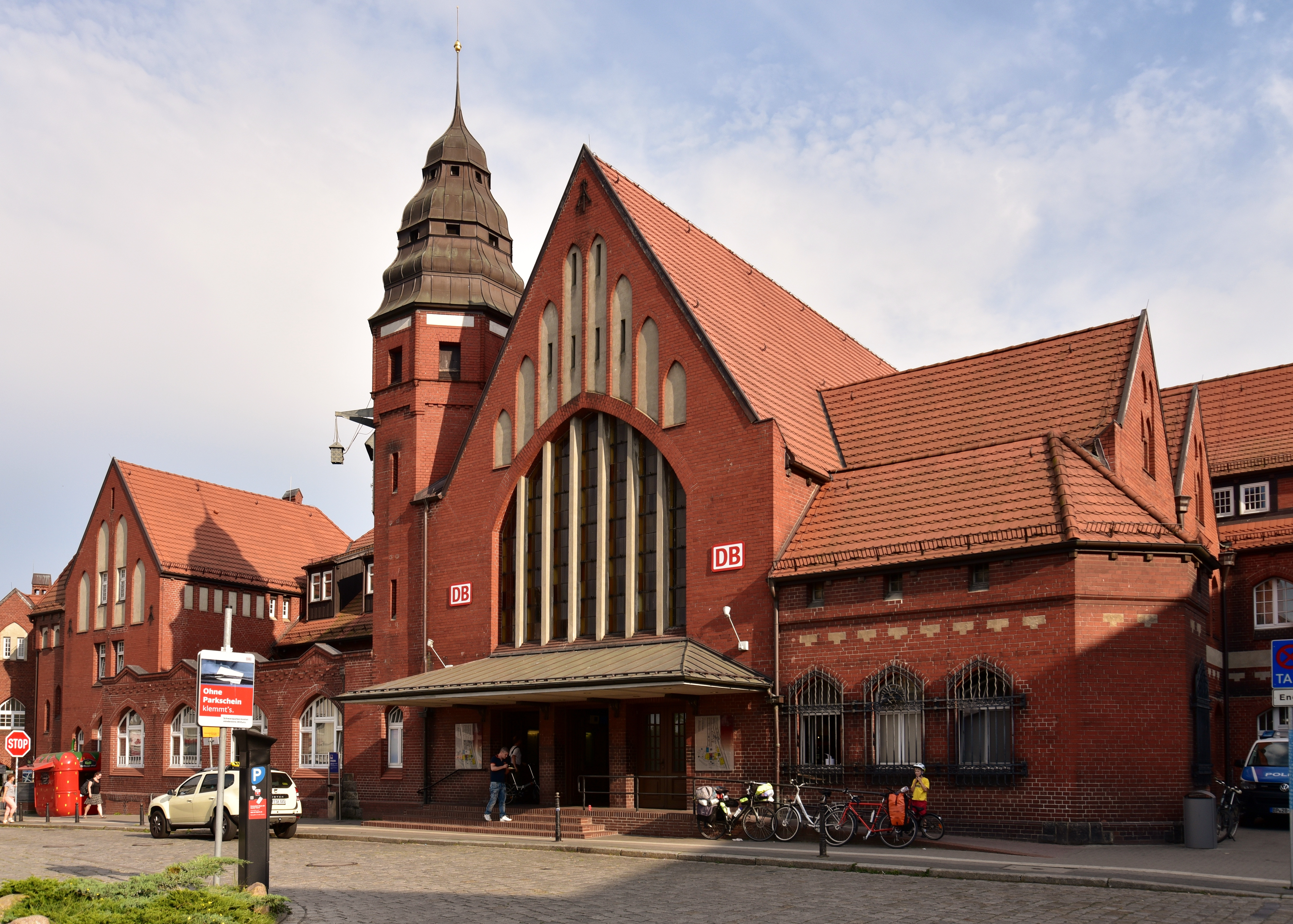 External view of the station building of Stralsund Hauptbahnhof